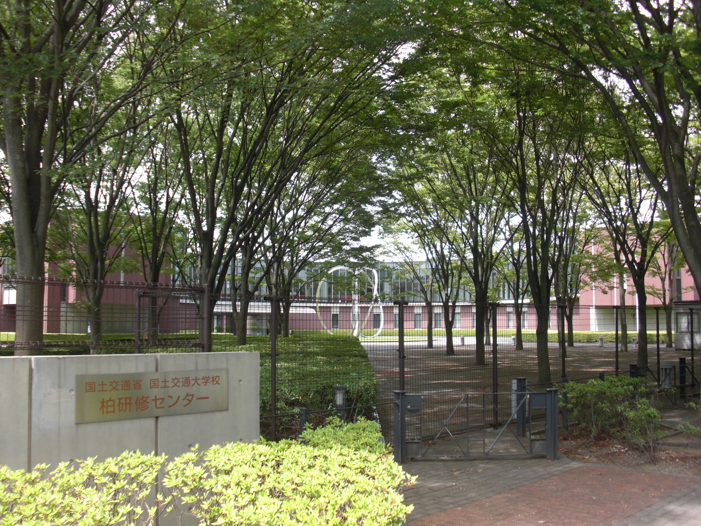 This is the College of Land, Infrastructure and Transport Kashiwa Training Center, which is located in Kashiwanoha, Kashiwa, Chiba, Japan.